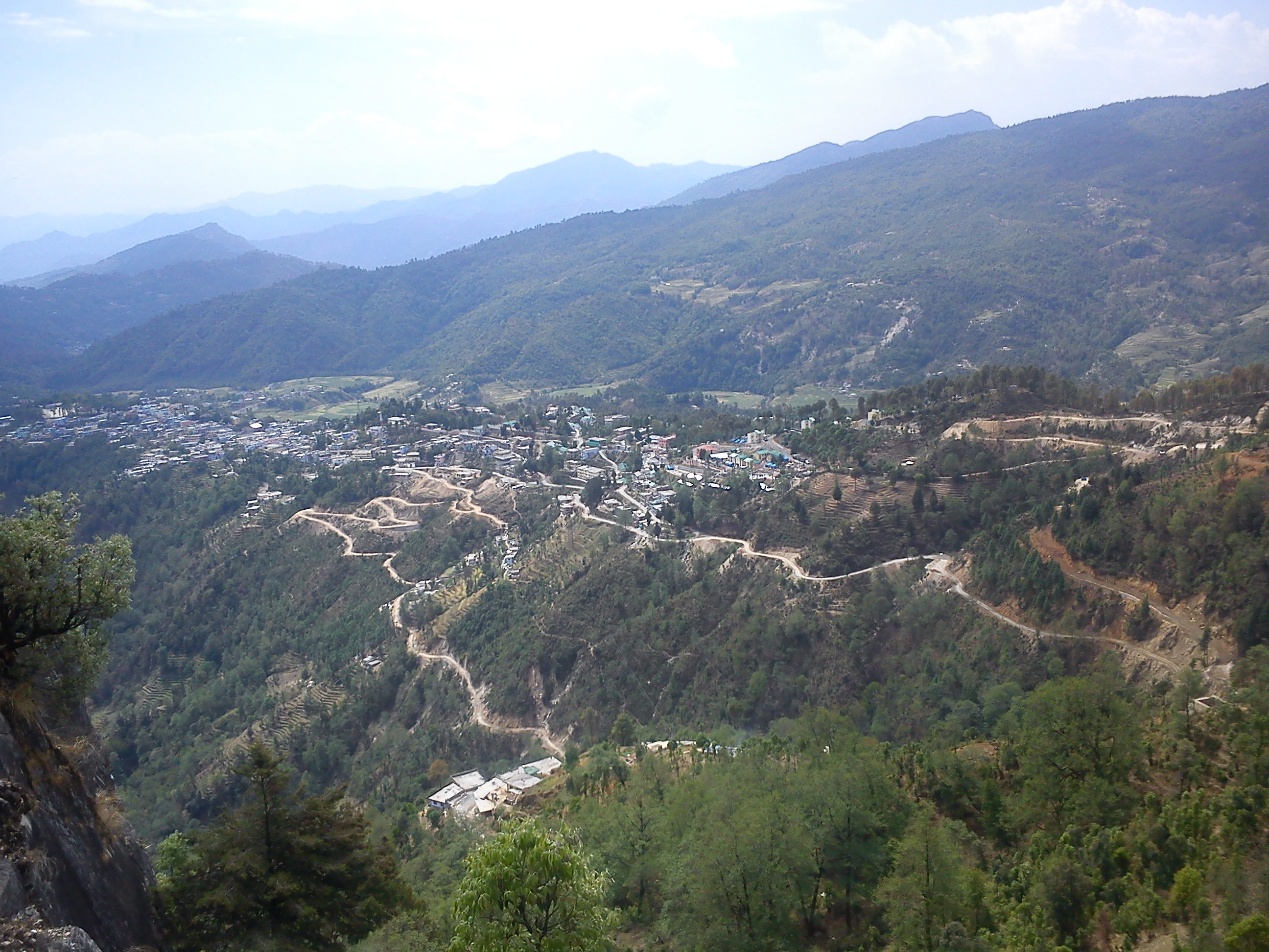 Didihat view from sherakot